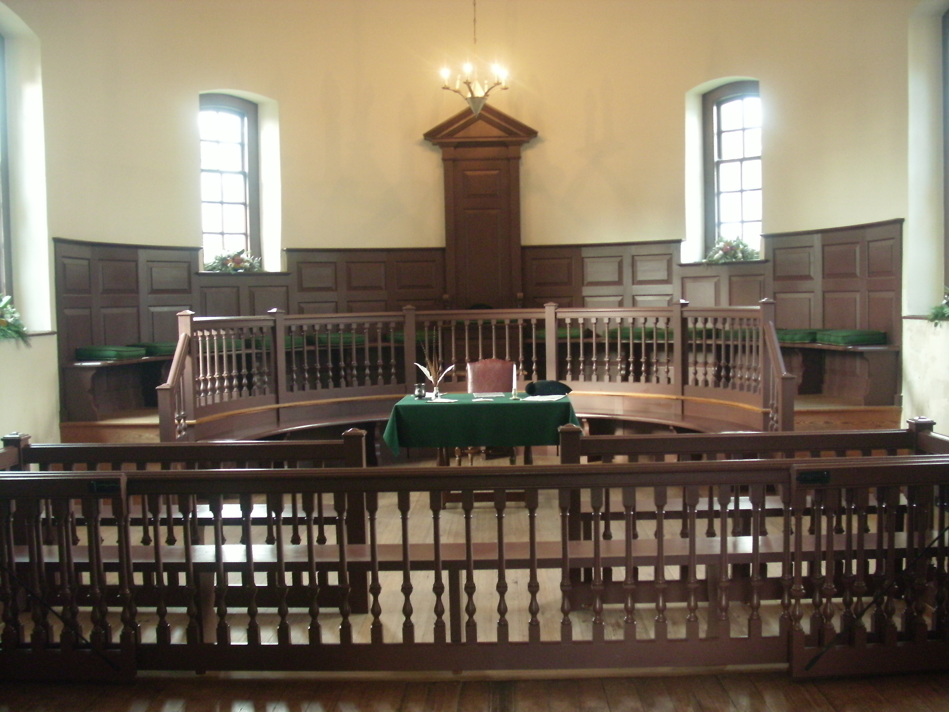 Old Isle of Wight Courthouse, NE corner of Main and Mason Sts. Smithfield